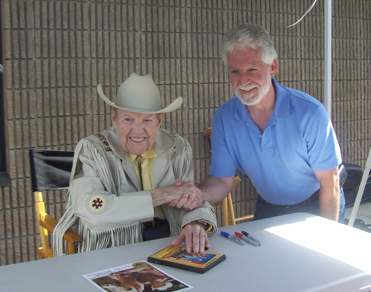 Rex Trailer appeared at That's Entertainment in Fitchburg MA on September 11, 2011. He sang and signed autographs for fans. One of those fans was Paul Ryan, who draws the daily Phantom comic strip.